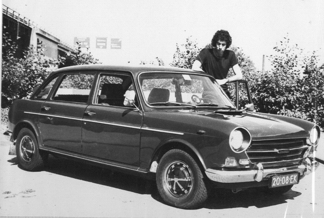 Left hand drive version of the Austin 1800 "Balanza" This car was "car of the year 1964" in Europe. The Austin 1800 was named "Balanza" because of the special suspension system that allowed the car to stay horizontal on bumpy roads. The British -Greek Alec Issigonis succeeded to create an original car. It was designed with a lot of living room. even in the back long legged persons could find a relaxing seat with lots of legroom. The car was quiet, fast and confortable with very good road handling qualities The suspension system was also known aa the Gin-and-Tonic system, well known from the Austin and Morris mini/seven and glider/1100 A later version of the engine was a six cylinder 2200